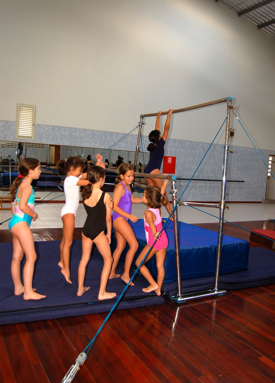 Girls lining up for practice on uneven bars.